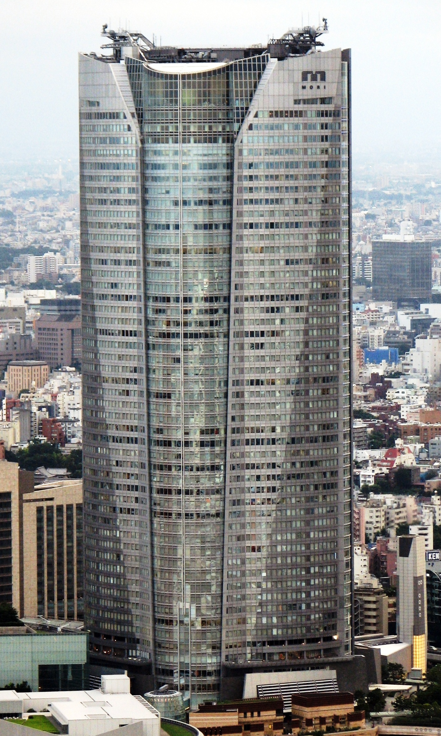 Mori Tower in Roppongi Hills during the day as seen from Tokyo Tower